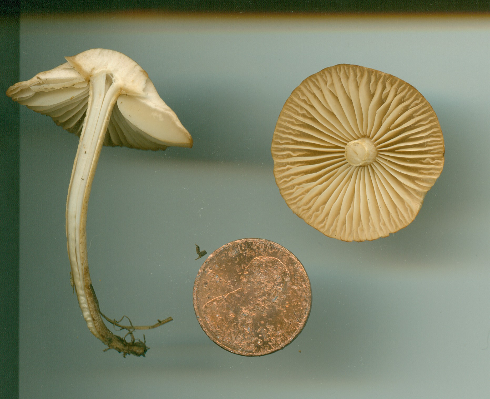 A scan photograph of the Common Fairy Ring Mushroom (Marasmius oreades) showing the gill pattern and connection to the stipe. These specimens were collected in Cottage Grove, MN.